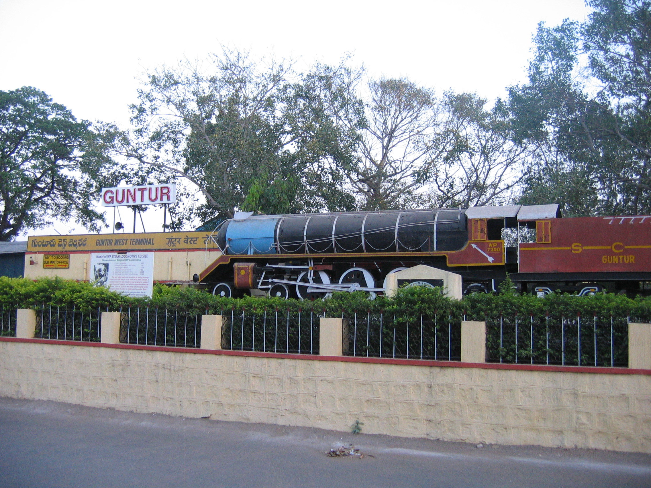 West Terminal and a Model Train at Guntur City, India.